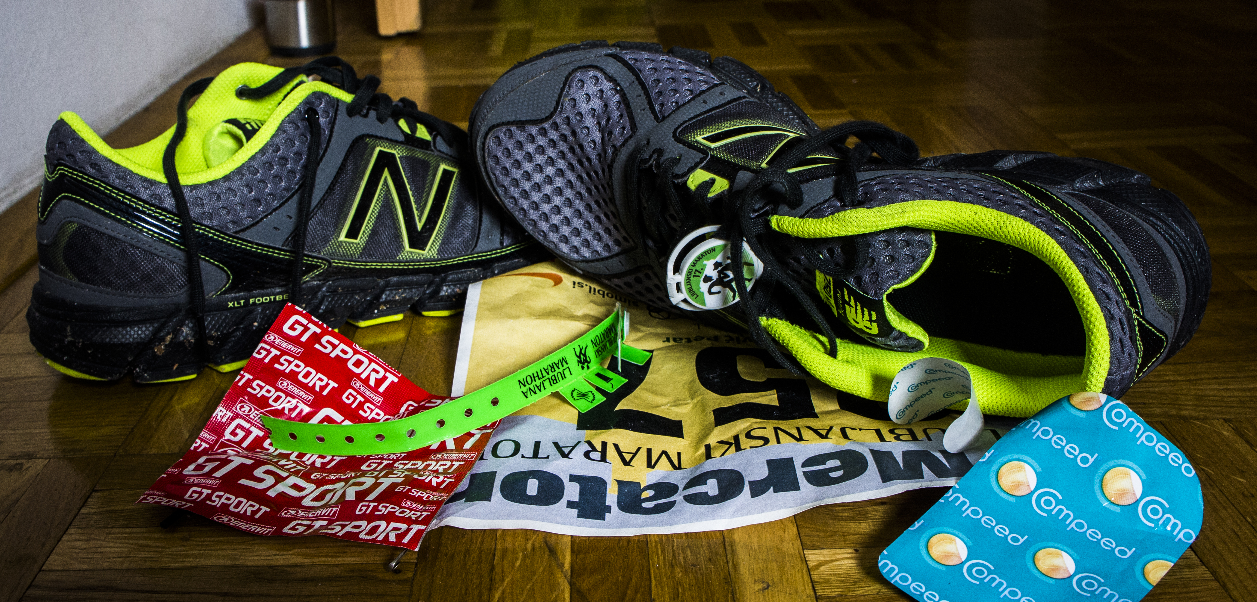 Road runners New Balance 750v1 after marathon.